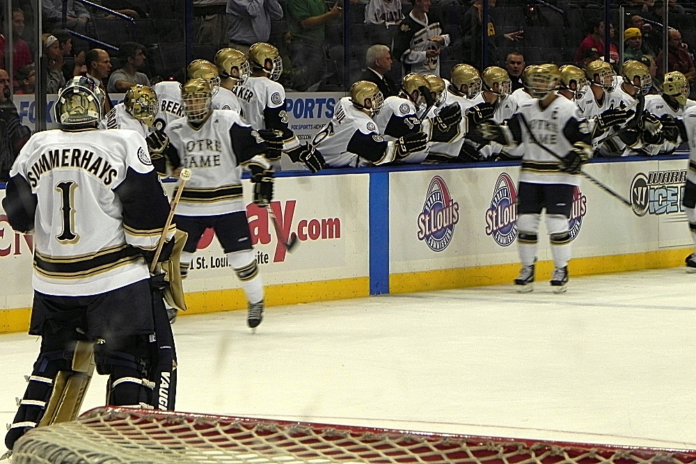 Notre Dame men's ice hockey team celebrates a goal against Boston University on October 10, 2010 at the 2010 Warrior Hockey Ice Breaker Tournament.